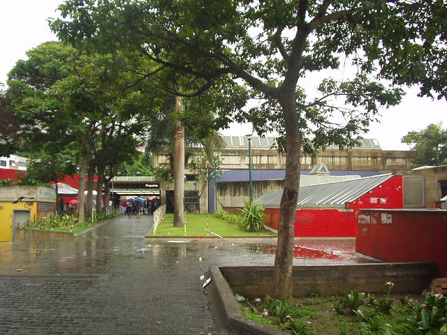 Propatria Station of the Caracas Metro. Caracas, Venezuela.